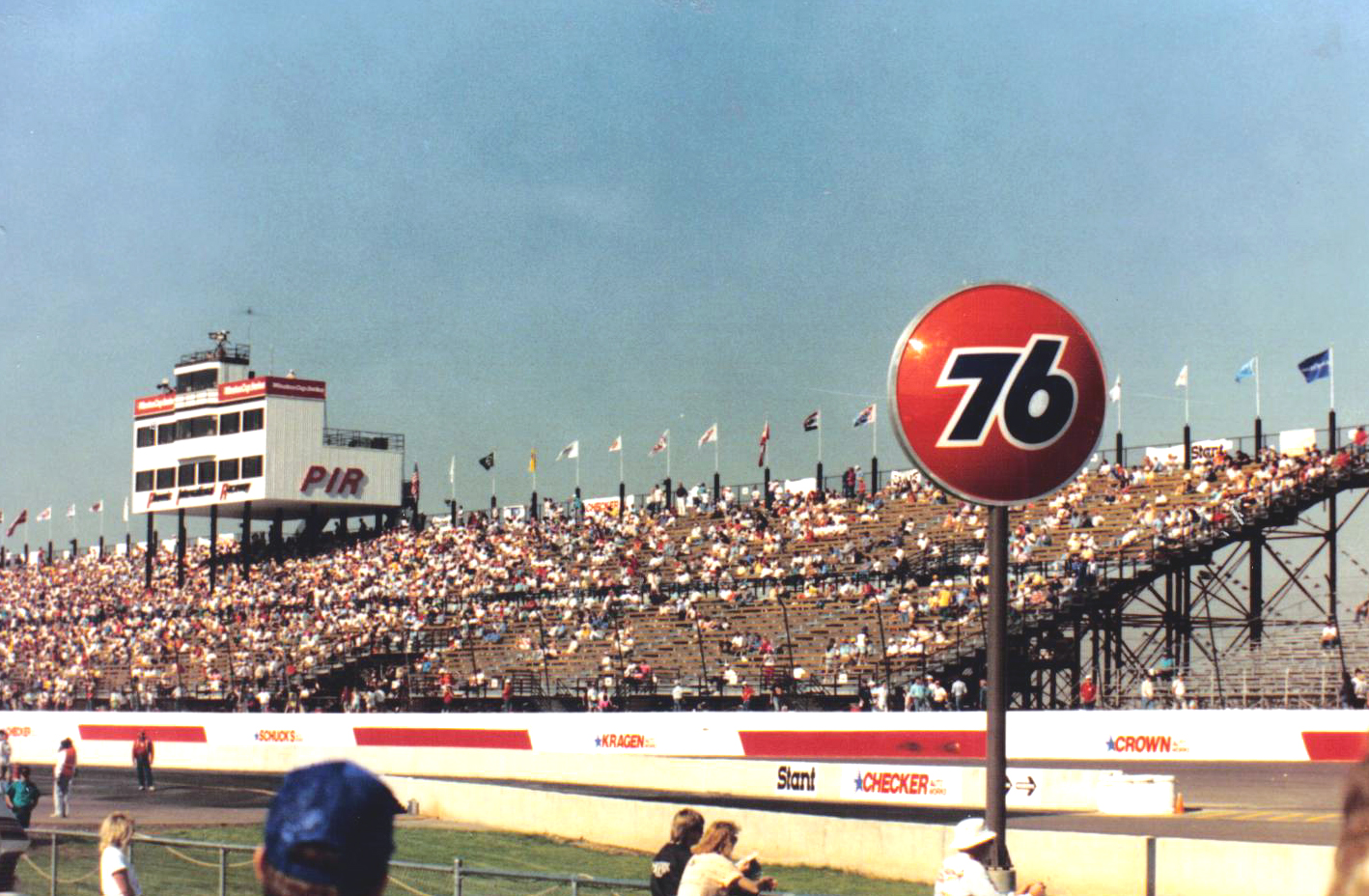 The Phoenix Raceway grandstands and a great looking Union 76 sign in 1989.